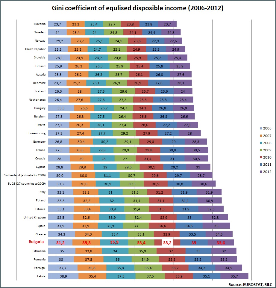 Graphical representation based on Eurostat data (SILC)